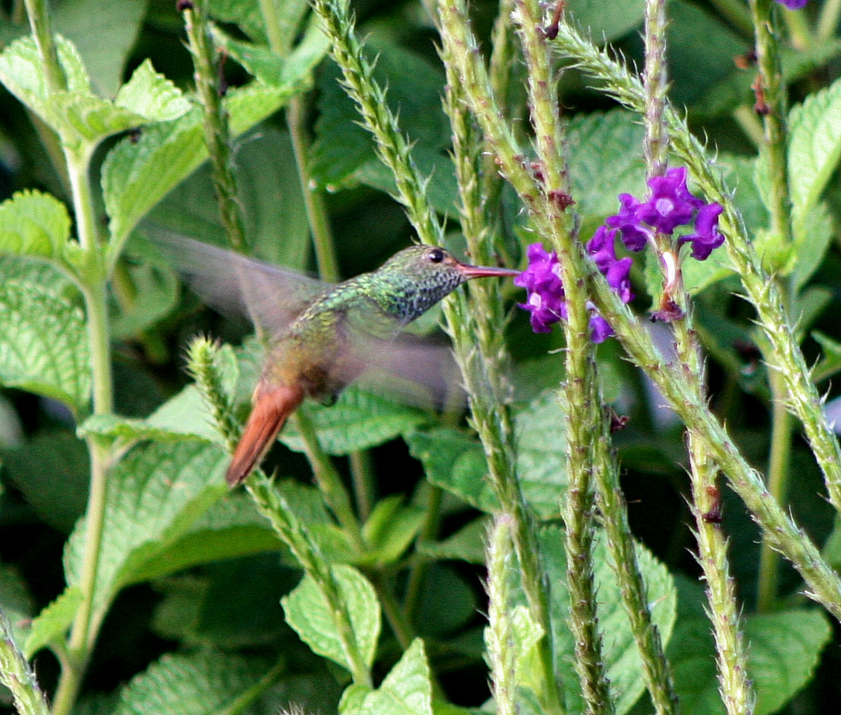 Rufous-tailed Hummingbird (Amazilia tzacatl), on Stachytarpheta cf. frantzii, from Costa Rica.